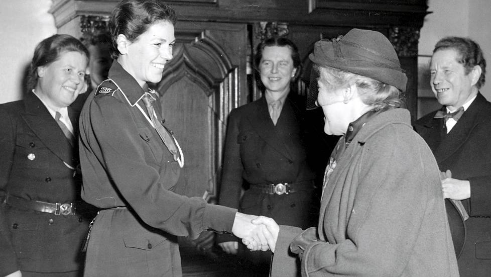 Countess Estelle Bernadotte in Helsinki in 1949. Here she greets the wife of the ambassador of Sweden to Finland. Estelle Bernadotte in Helsinki, Finland